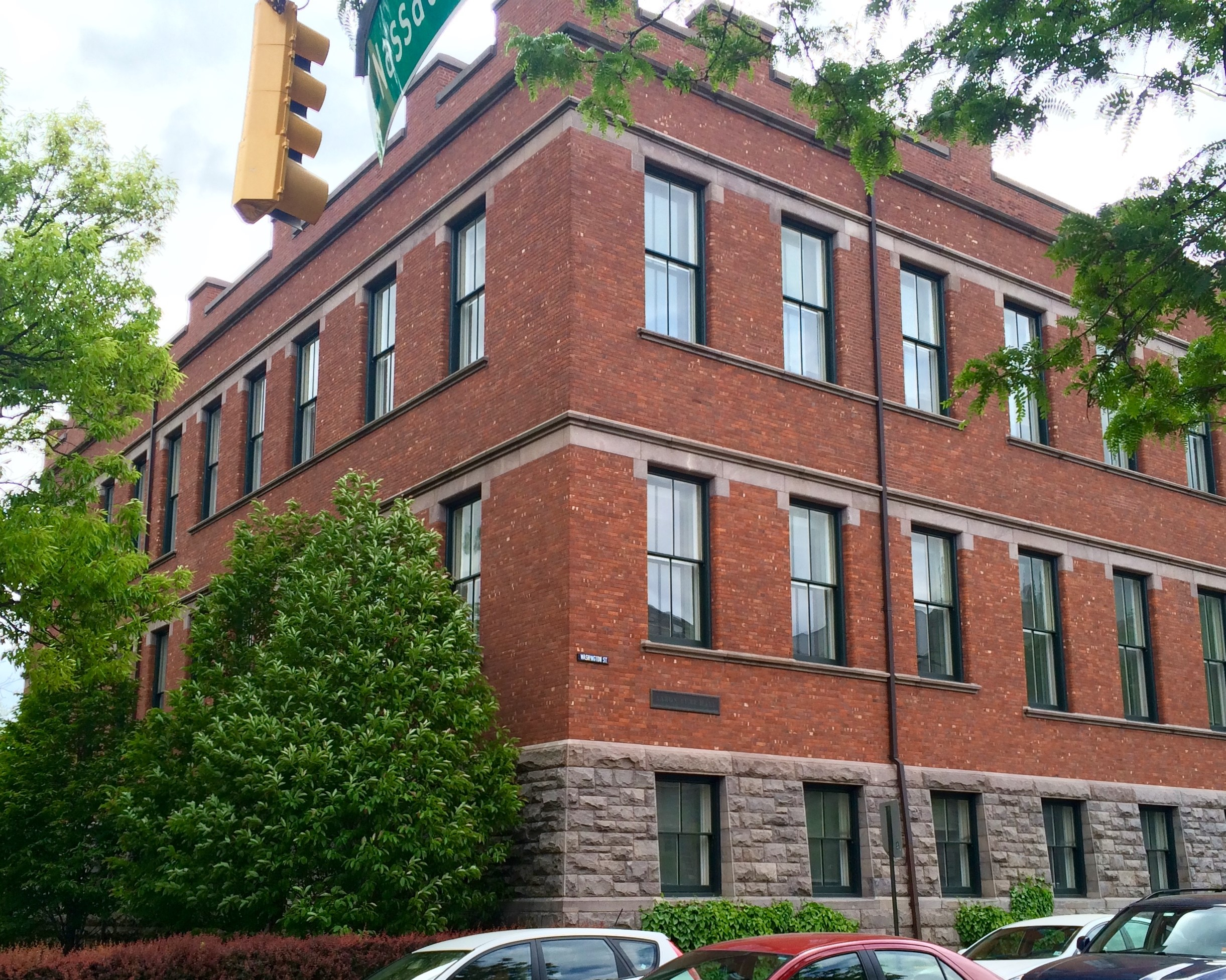 Aaron Burr Hall at Princeton University, built 1891 as the Chemical Laboratory.